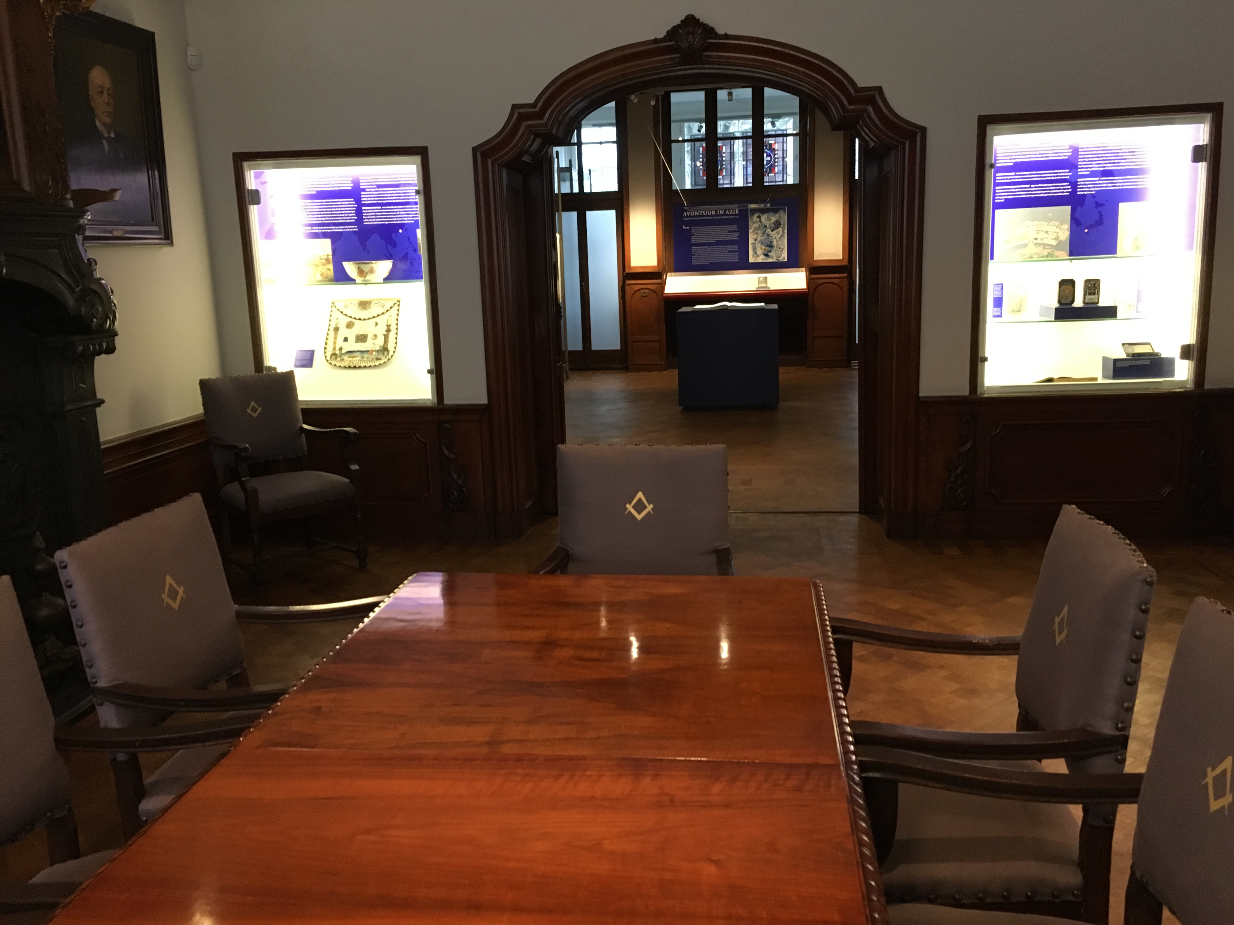 Freemason Museum The Hague, interior